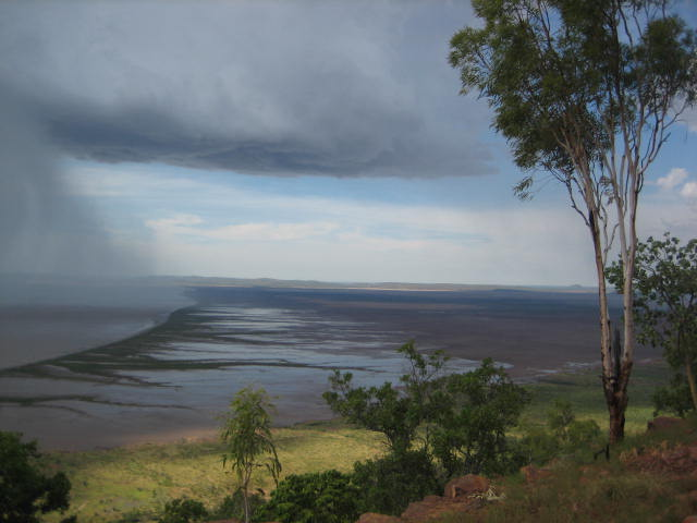 River estuary looking east, Bastion Lookout, Wyndham, Western Australia